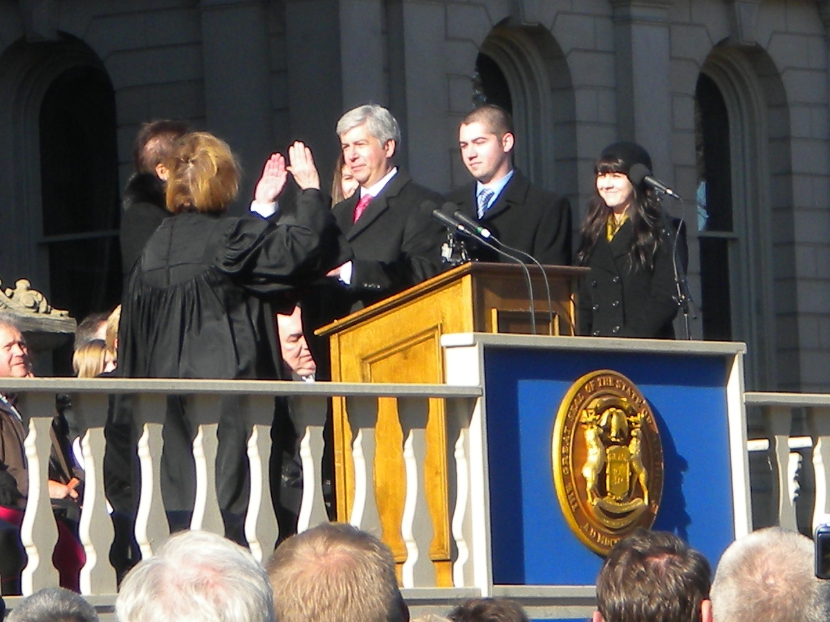 Rick Snyder, 48th Governor of Michigan, takes the oath of office from Supreme Court Chief Justice Marilyn Kelly on the steps of the Capitol at his inauguration.